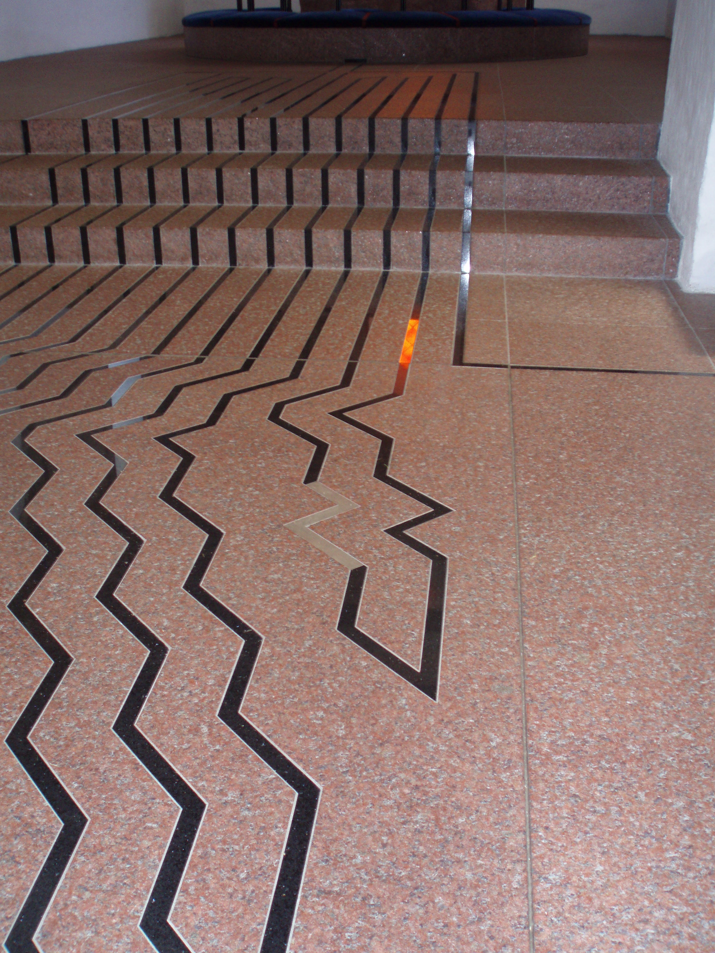 Jelling Kirke in Jelling, Denmark. The grave of Gorm den Gamle inside the church. Photographer: User:Brams